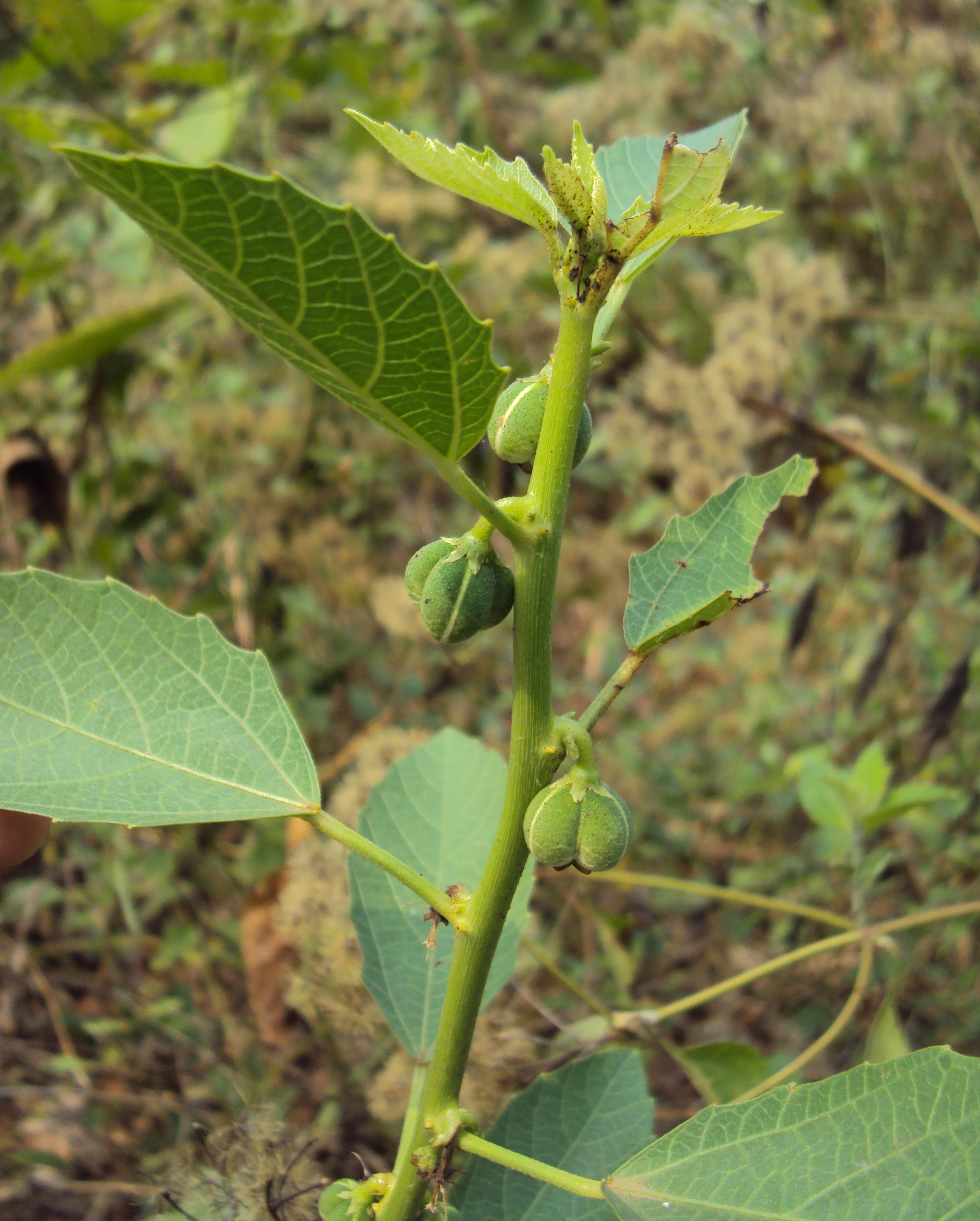 Baliospermum solanifolium